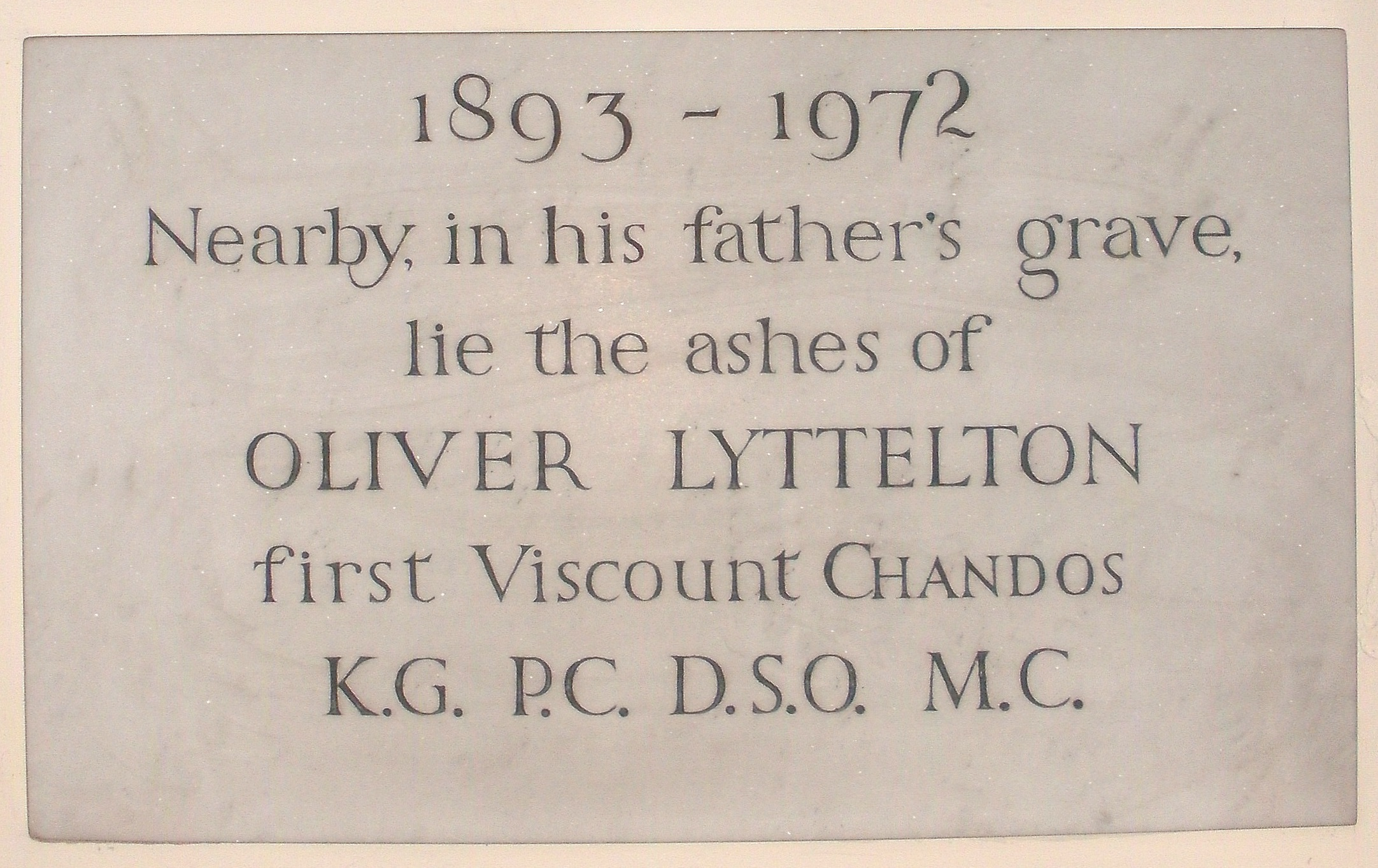 Hagley, Worcestershire, St John the Baptist Church - interior, memorial to Oliver Lyttelton, 1st Viscount Chandos, KG, DSO, MC, PC (1893–1972)